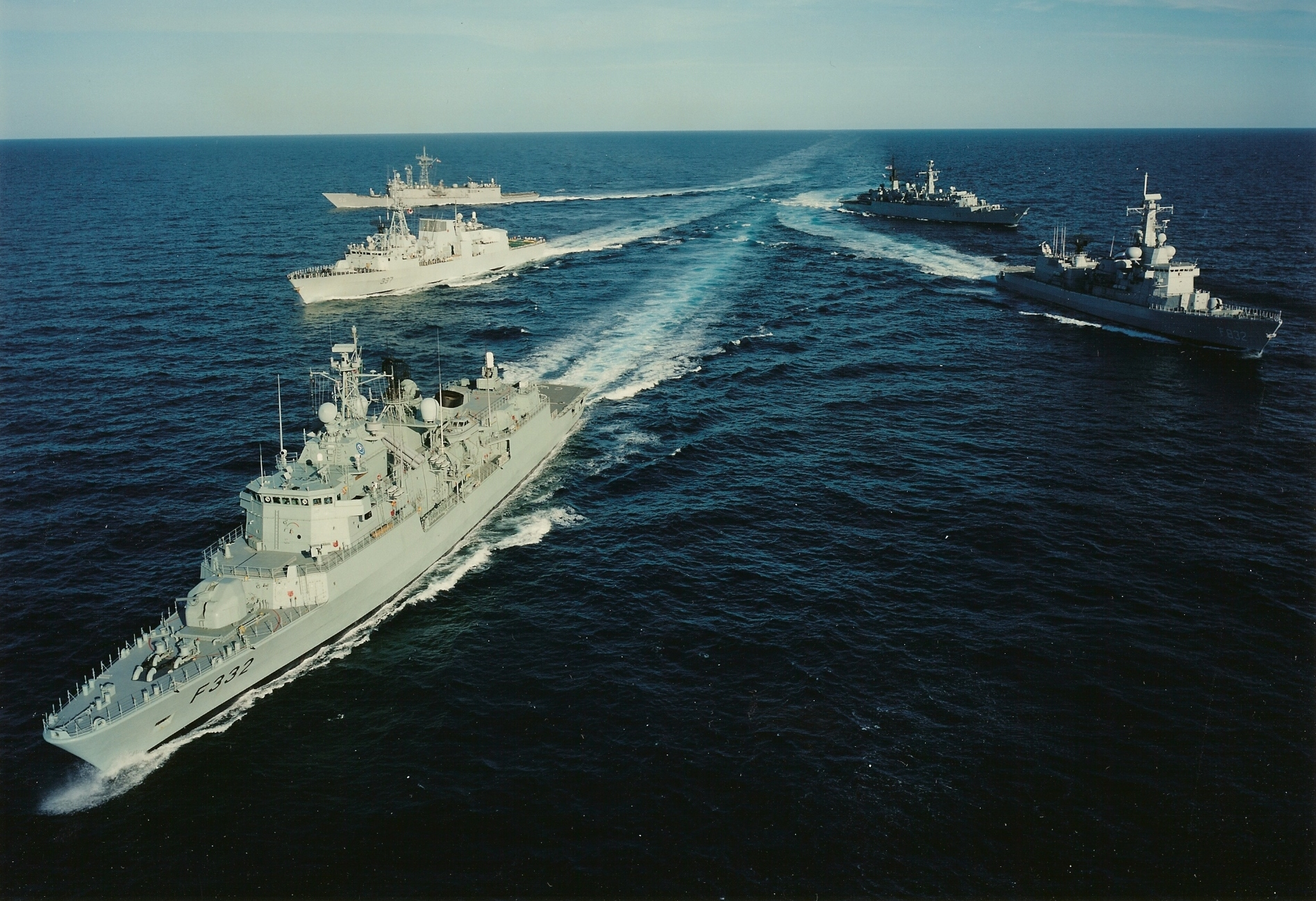 US Navy War ship USS Simpson (FFG-56) sails with NATO Fleet in Adriatic Sea during Operation Sharp Guard and Portuguese Navy War ship NRP Corte-Real (F332) commander ship